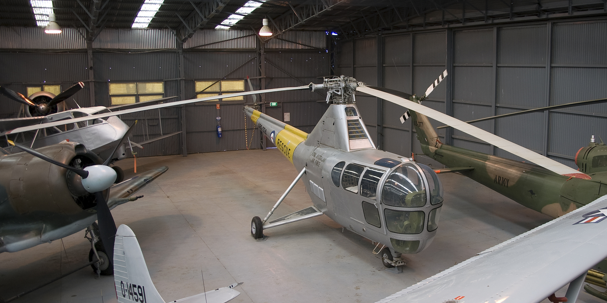 RAAF A80-374 Sikorsky S-51 at the RAAF Museum.